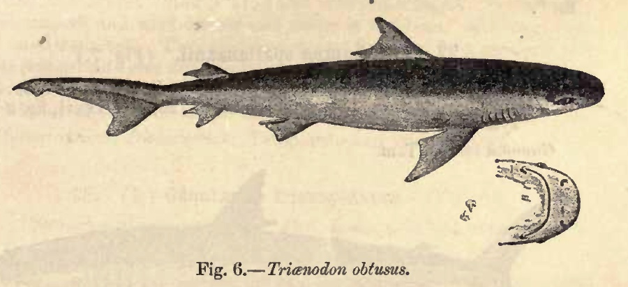 Triænodon obtusus = Carcharhinus amboinensis (Müller & Henle, 1839)